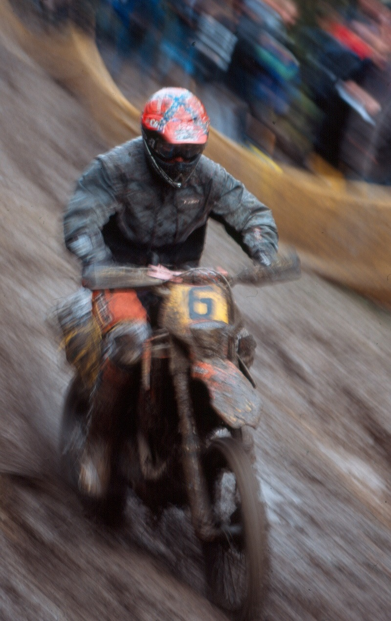 David Knight during the World Championship Race in Zschopau Germany Oct. 2004 Author: Liesel